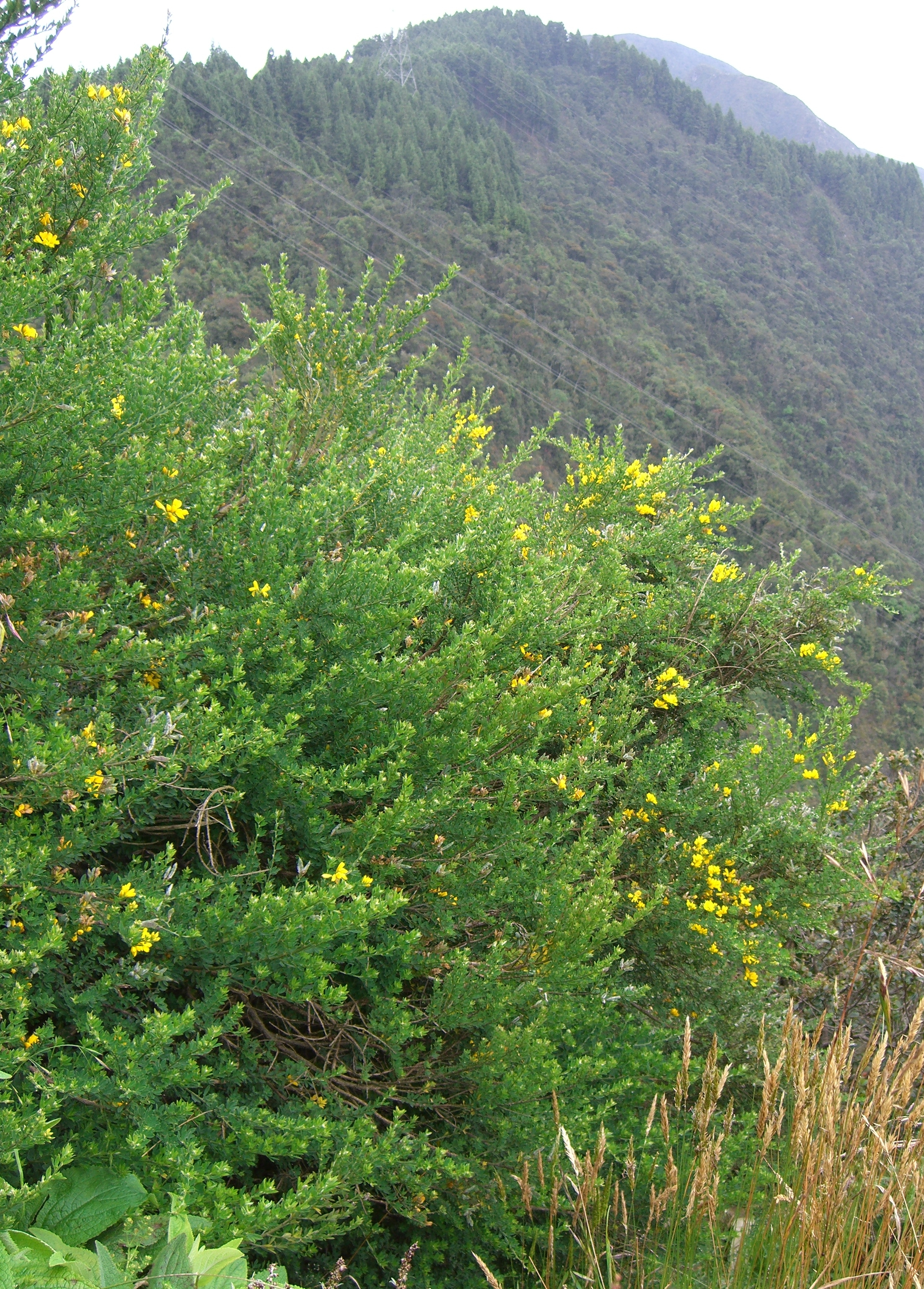 Please report references to .